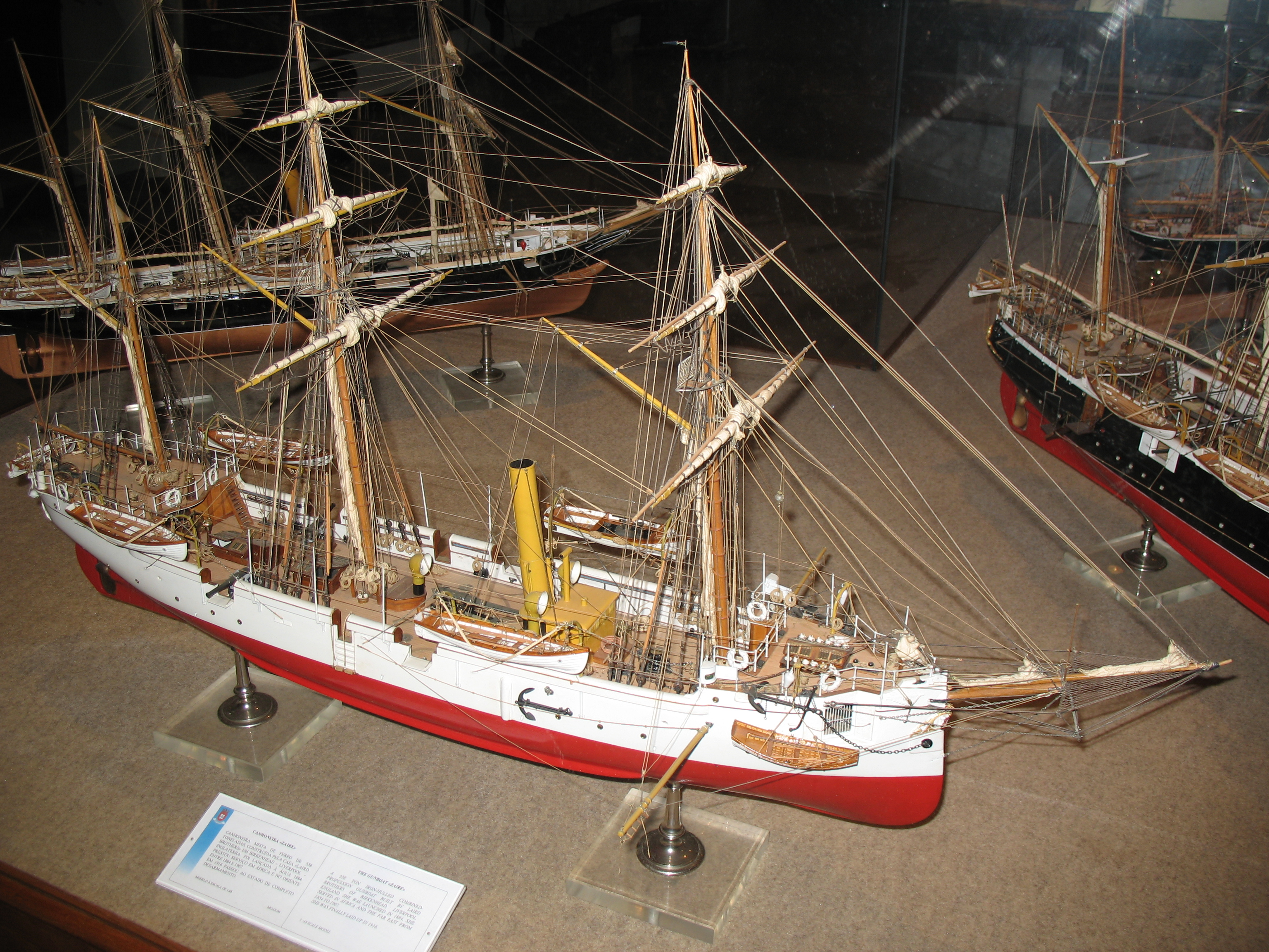 Gunboat «Zaire».